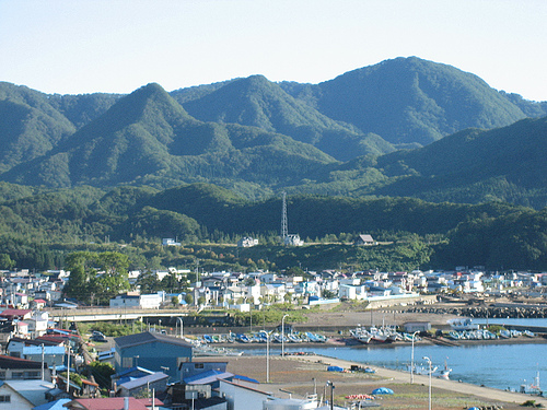 Fukushima, Hokkaido: Port and surrounding mountains.